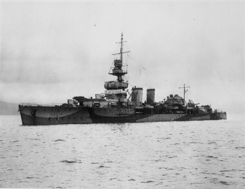 Royal Navy light cruiser HMS Cardiff underway